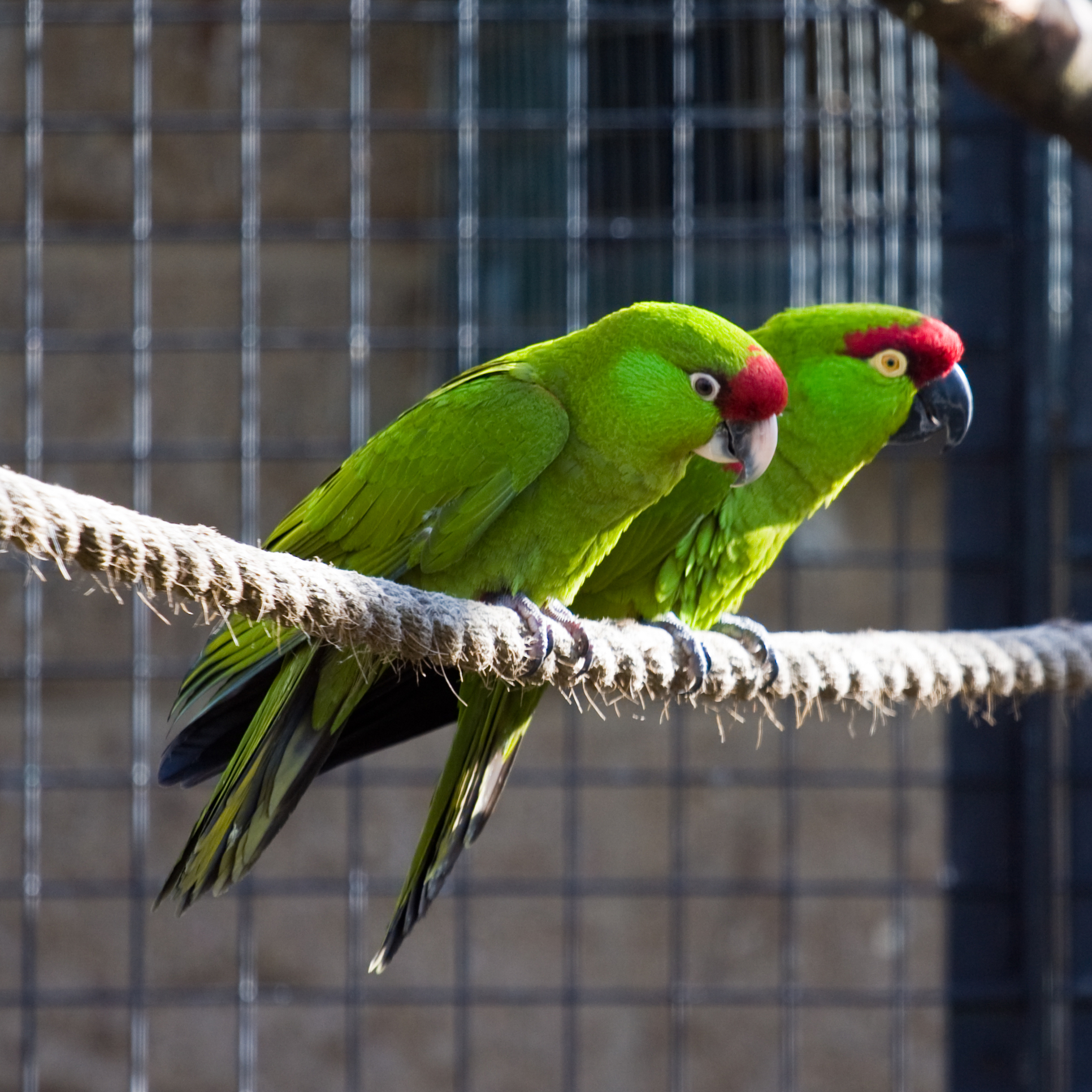 Thick-Billed Parrots at Twycross Zoo, Leicestershire, England. A juvenile is in front of an adult, both perching on a rope in an aviary. The juvenile has a pale beak and the adult has a dark peak. Focal length 200mm, Aperture f/4.0, Shutter Speed 1/100sec, ISO 125